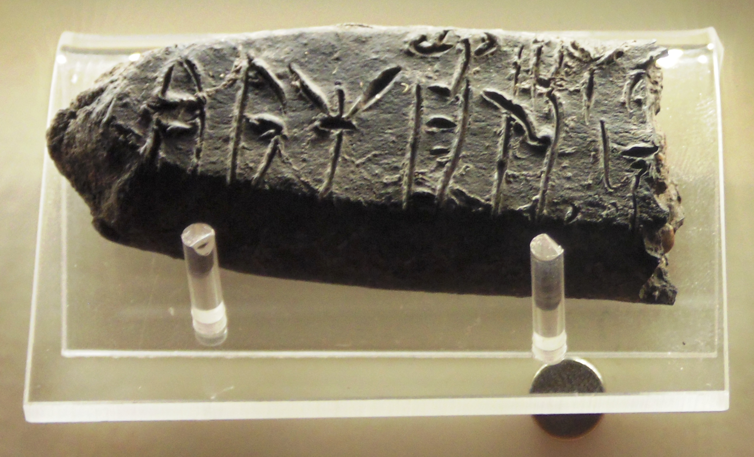 Collection of Archaeological Museum of Thebes